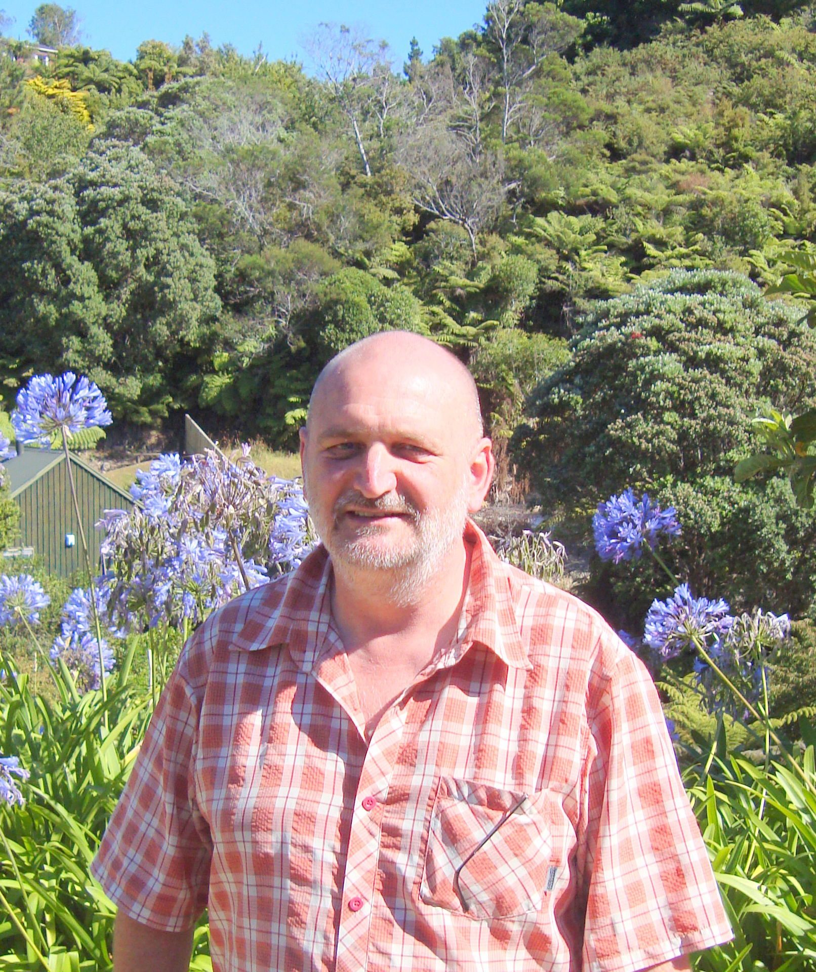 Mathematics professor at Victoria University of Wellington Matt Visser during the 2010 NZIMA Workshop on Topological Quantum Field Theory and Knot Homology Theory in Hahei, New Zealand.